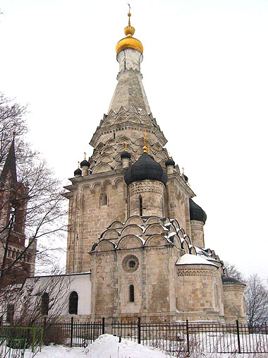 Transfiguration Church in Ostrov near Moscow (1590s).